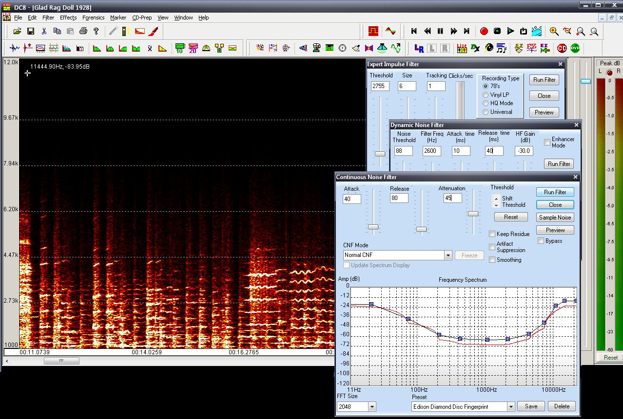 DC8 Screen shot